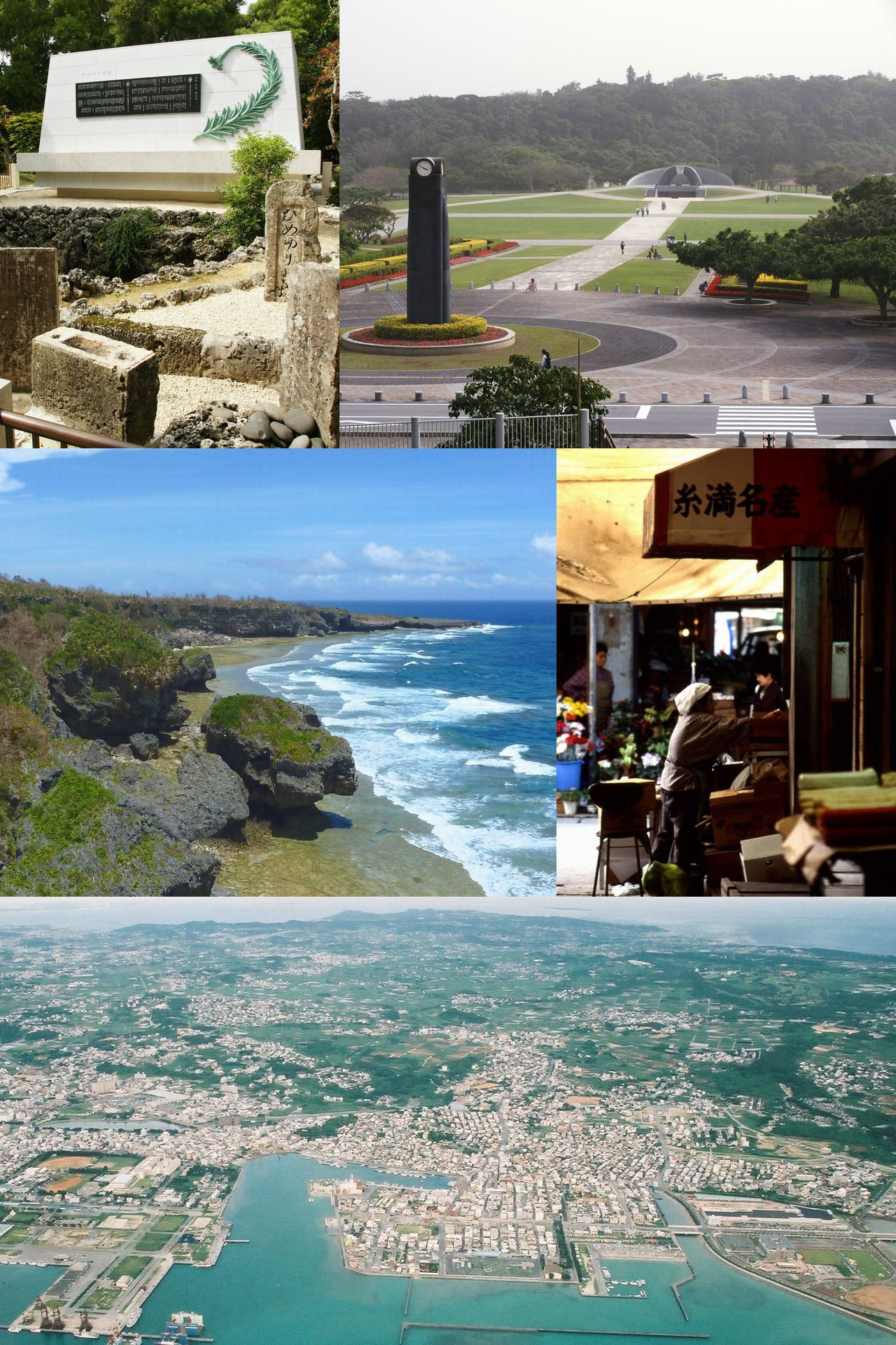 This image is montage of Itoman, Okinawa prefecture, Japan upper left : Himeyuri Cenotaph upper right : Okinawa Senseki Quasi-National Park middle left : Arasaki viewed from Cape Kyan middle right : Itoman Central Market bottom : Central area of Itoman city contained with south region of Okinawa island by aerial photograph